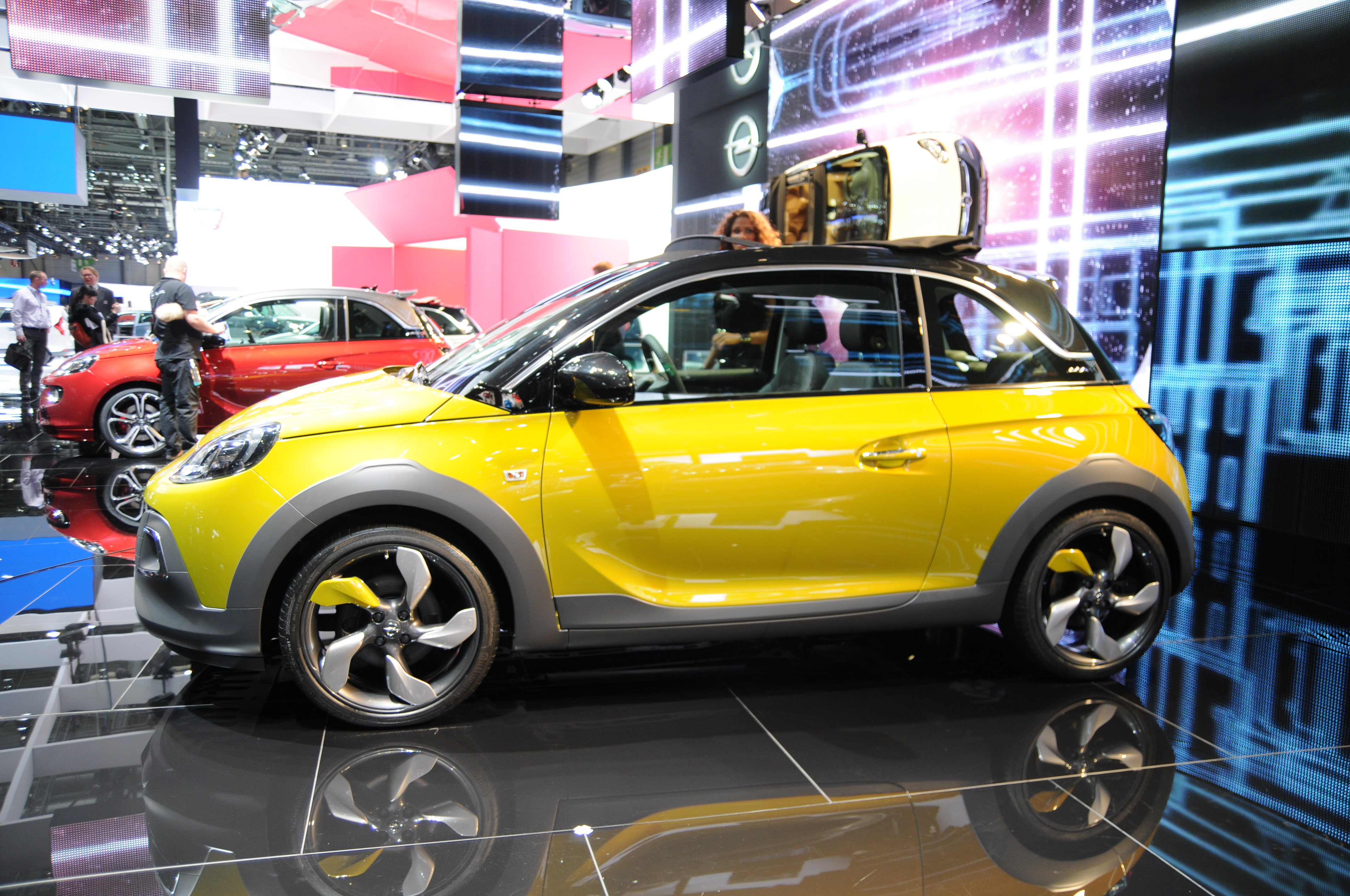 Geneva Motor Show 2014 (photo taken on the first press day)